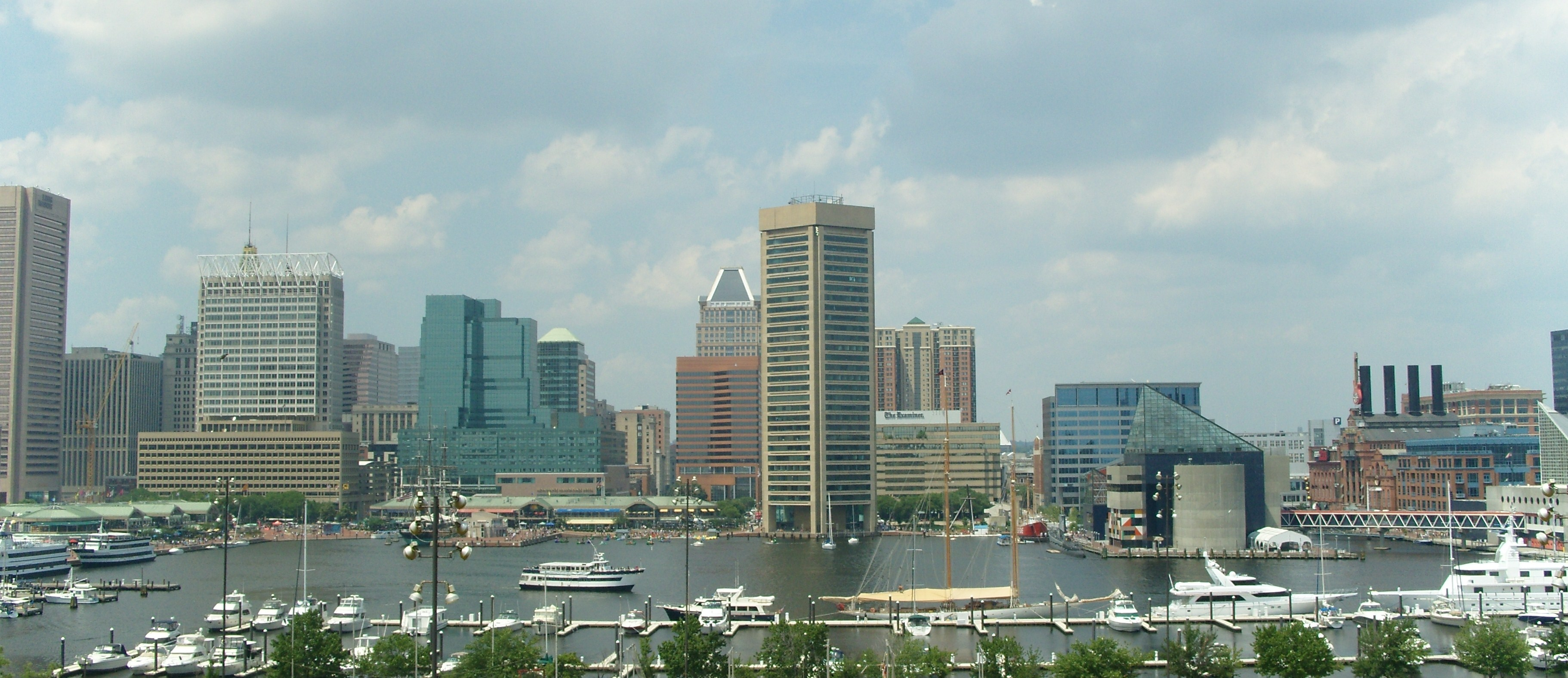 Cityscape of Baltimore, MD